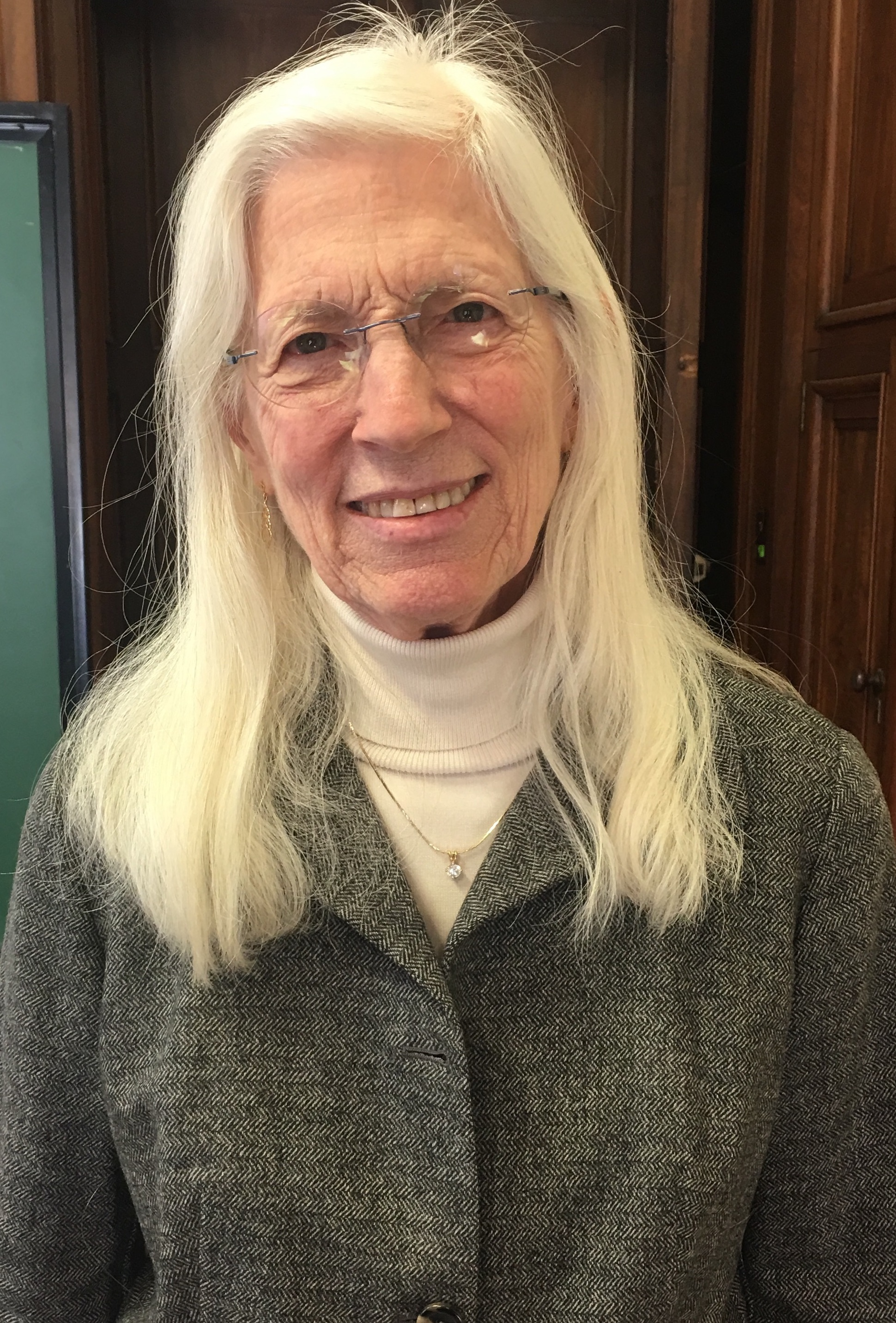 Professor Margaret Radin, intellectual property law professor.